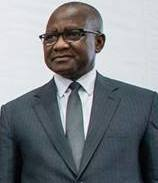 From left to right: Deputy Chief of Mission of the U.S. embassy in Monrovia Sam Watson; First Lady of Liberia Clar Weah; President of Liberia George Weah; U.S. Ambassador to Liberia Christine Elder; Speaker of the House of Representatives of Liberia Bhofal Chambers; and Chief Justice of Liberia Francis Korkpor. The dignitaries were attending the 2018 U.S. Independence Day Celebration in Monrovia on July 4, 2018. [1]